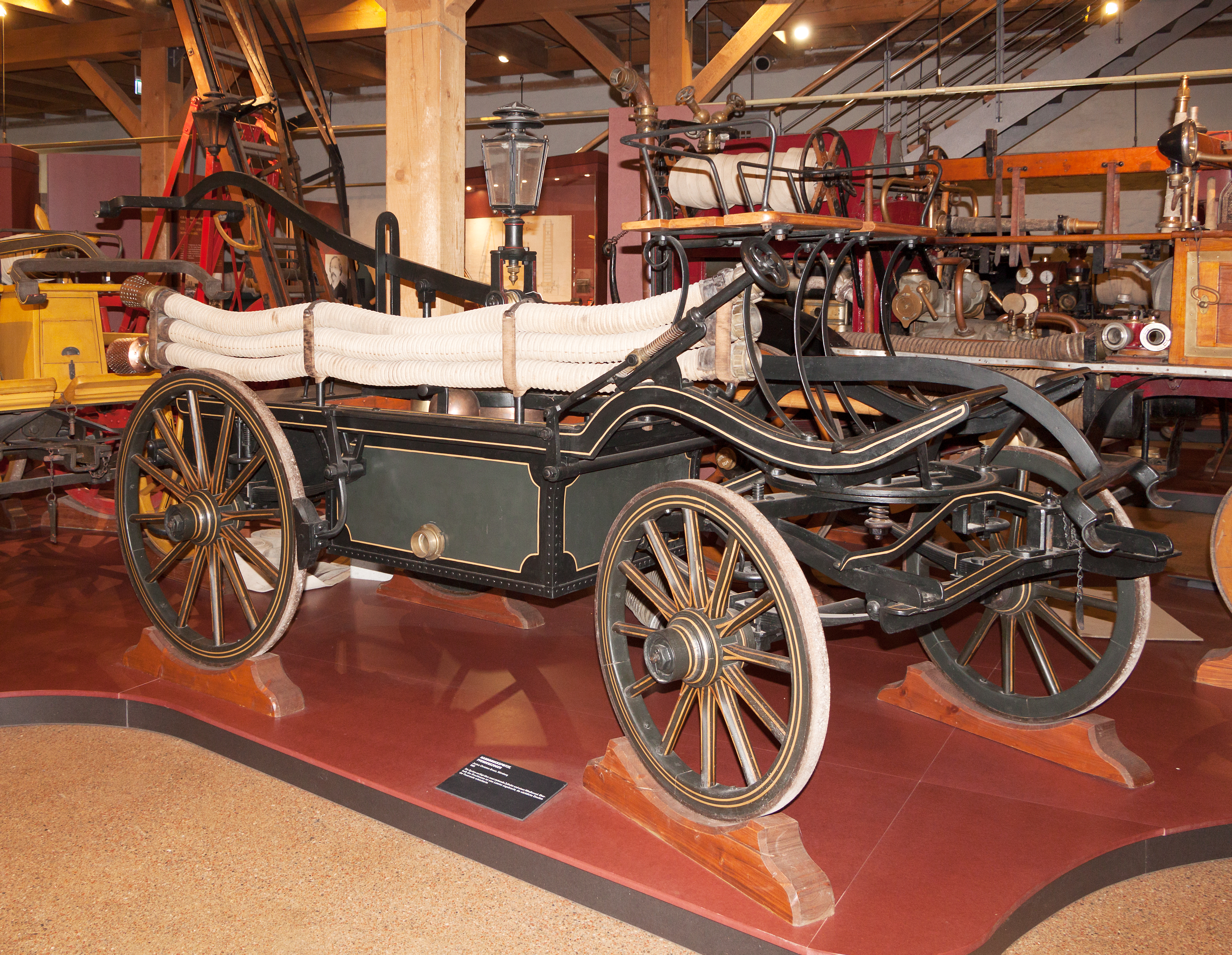 Horse-drawn fire engine by Justus Christian Braun, 1865, Nürnberg, Germany; Feuerwehrmuseum Salem, Baden-Württemberg, Germany.